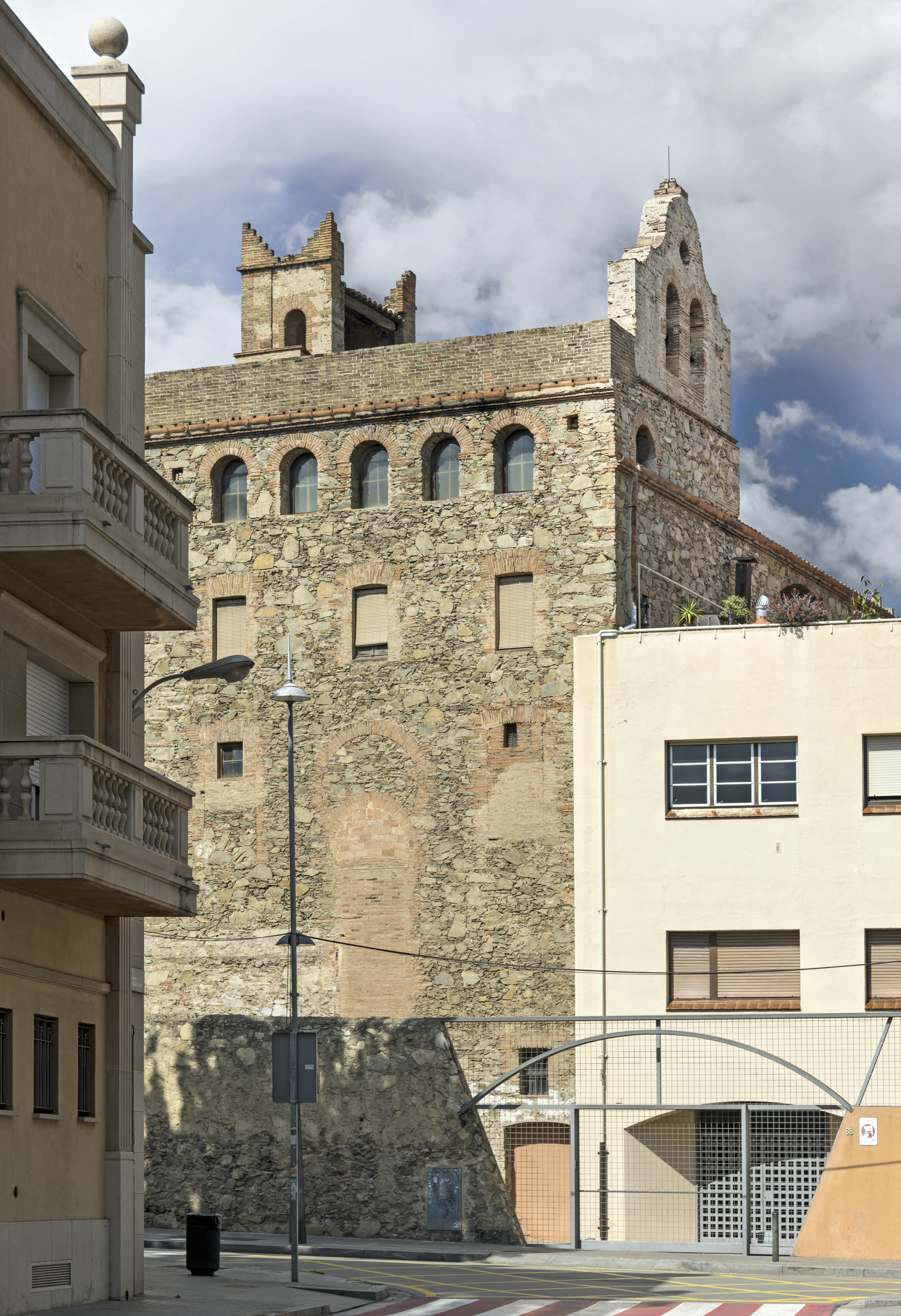 The Convent of the Divine Providence of Badalona, seen from the "Carrer d'Enric Borràs".